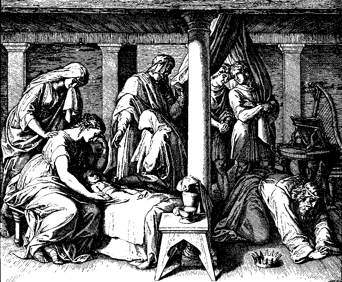 Woodcut for "Die Bibel in Bildern", 1860.